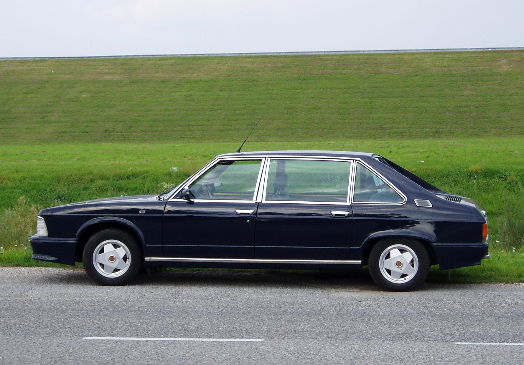 Tatra 613-4 MiLong (1995), V8-3495 ccm, fuel injection, air cooled, 200HP, 230 km/h, Photo: Ondrej Ertl (2005), Bratislava